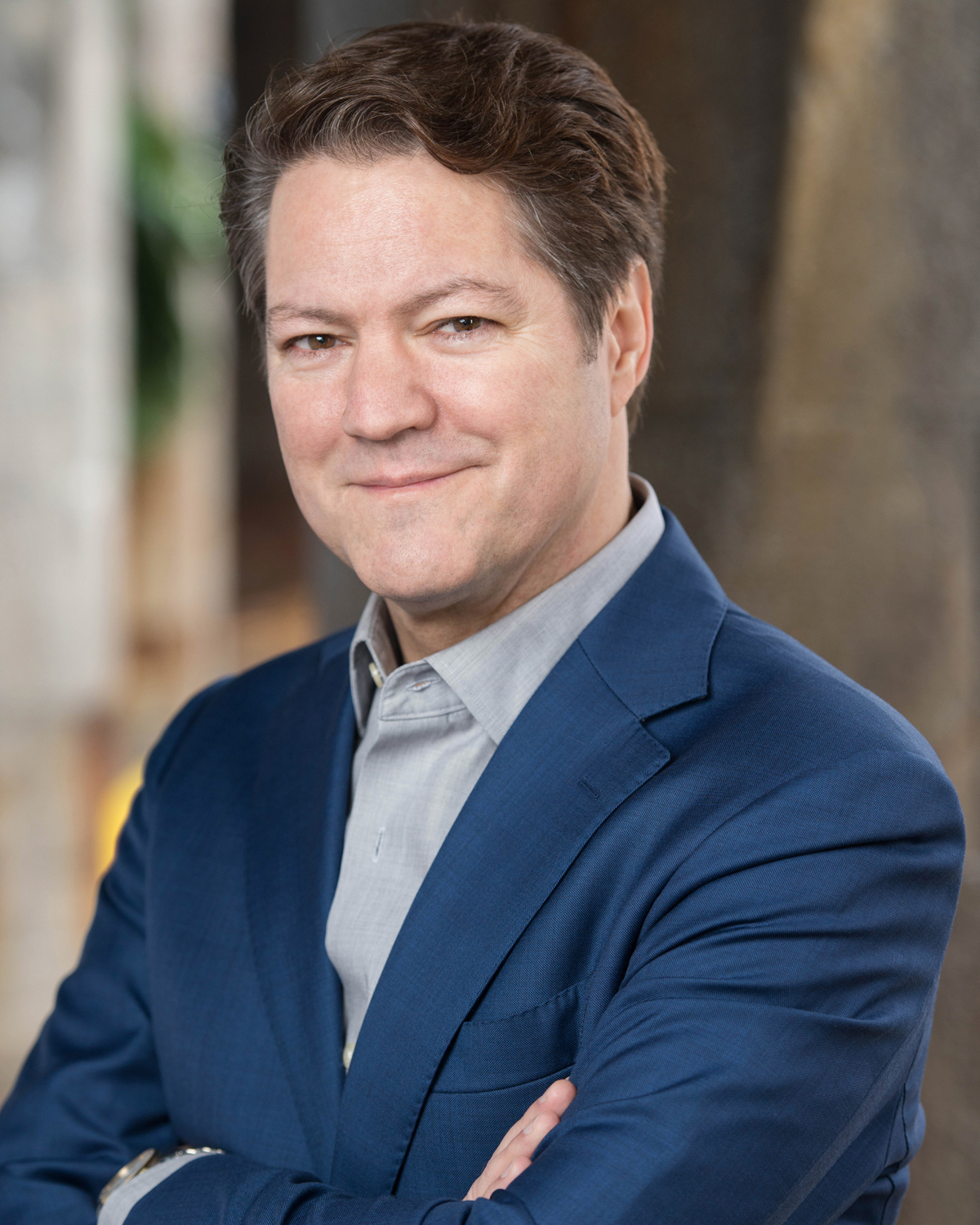 Headshot of Actor Robert Petkoff